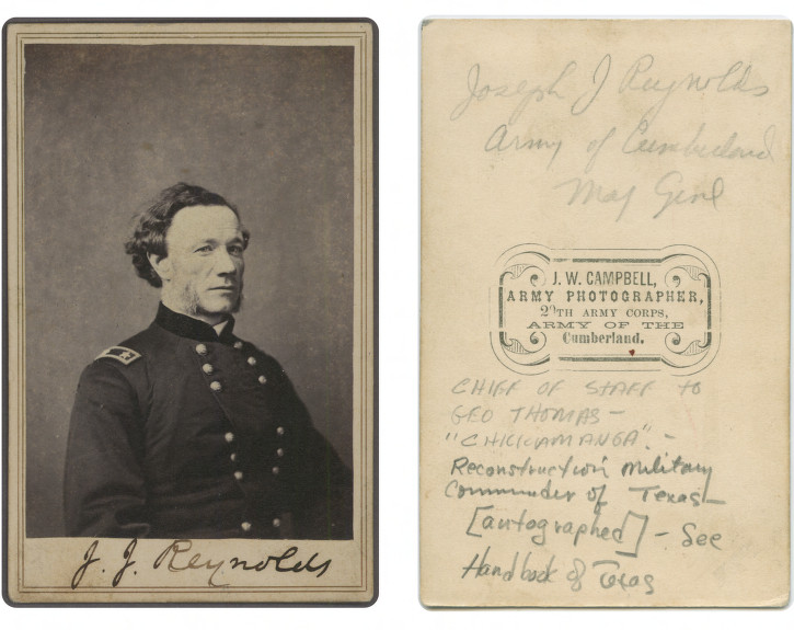 Title: J. J. Reynolds Alternative Title: [Major General Joseph Jones Reynolds, Union Army] Creator: J. W. Campbell, Army Photographer, 29th Army Corps, Army of the Cumberland Date: ca. 1863 Part Of: Lawrence T. Jones III Texas photography collection Physical Description: 1 photographic print on carte de visite mount; 10 x 6 cm. File: ag2008_0005_2_1_088_c_reynolds_opt.tif Rights: Please cite DeGolyer Library, Southern Methodist University when using this file. A high-resolution version of this file may be obtained for a fee. For details see the web page. For other information, . For more information, View Lawrence T. Jones III Texas Photographs